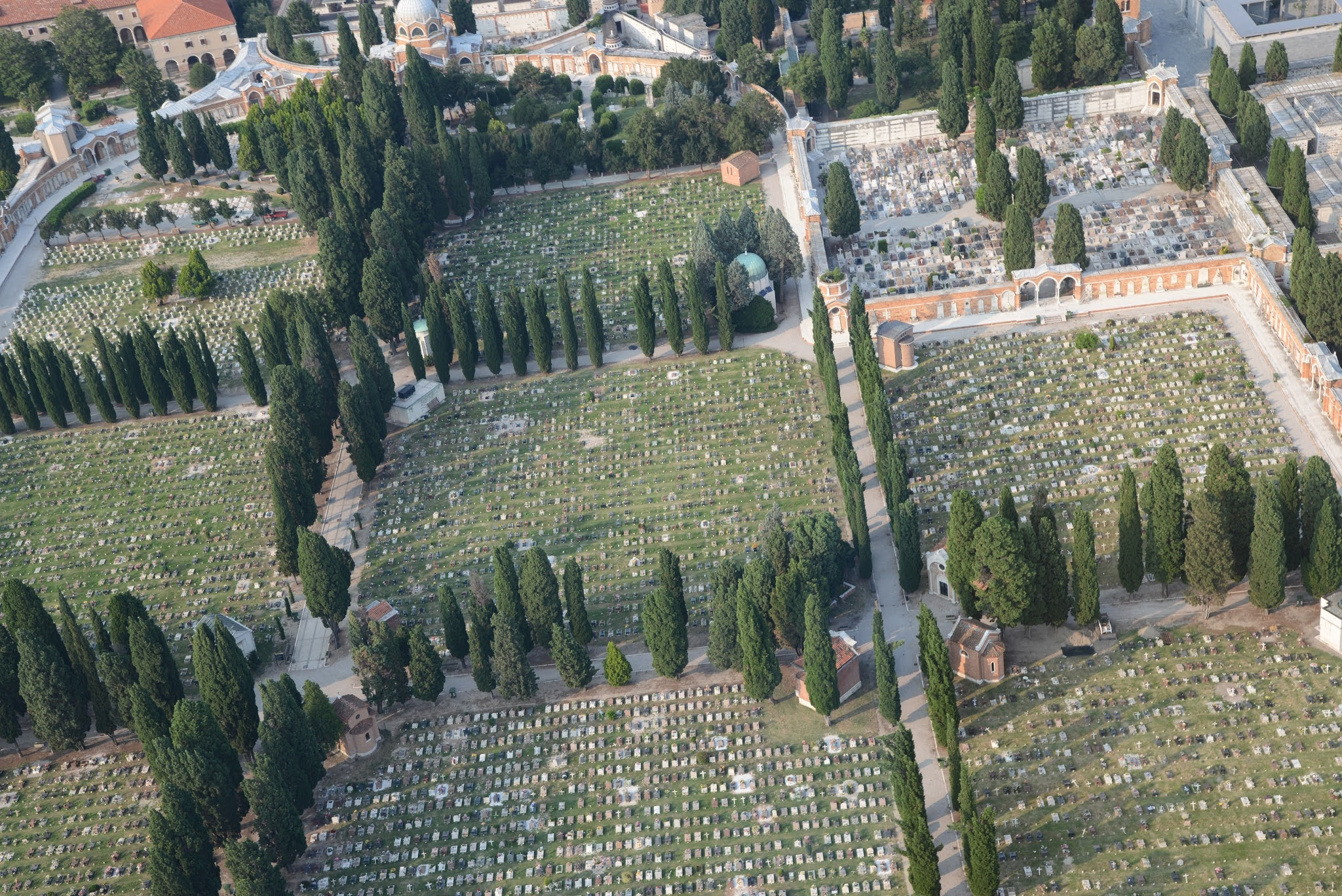 Aerial photographs of Venice